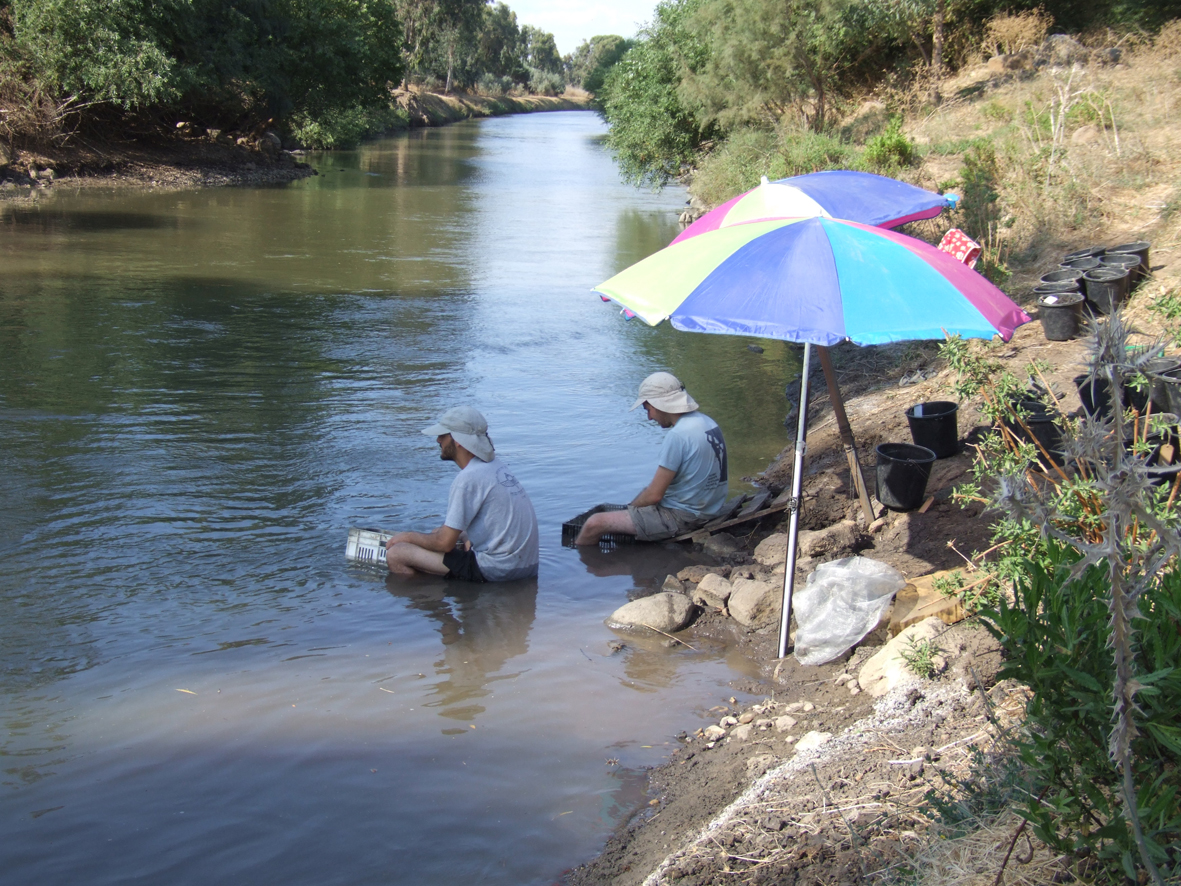 Sieving in the Jordan River NMO excavation 2008